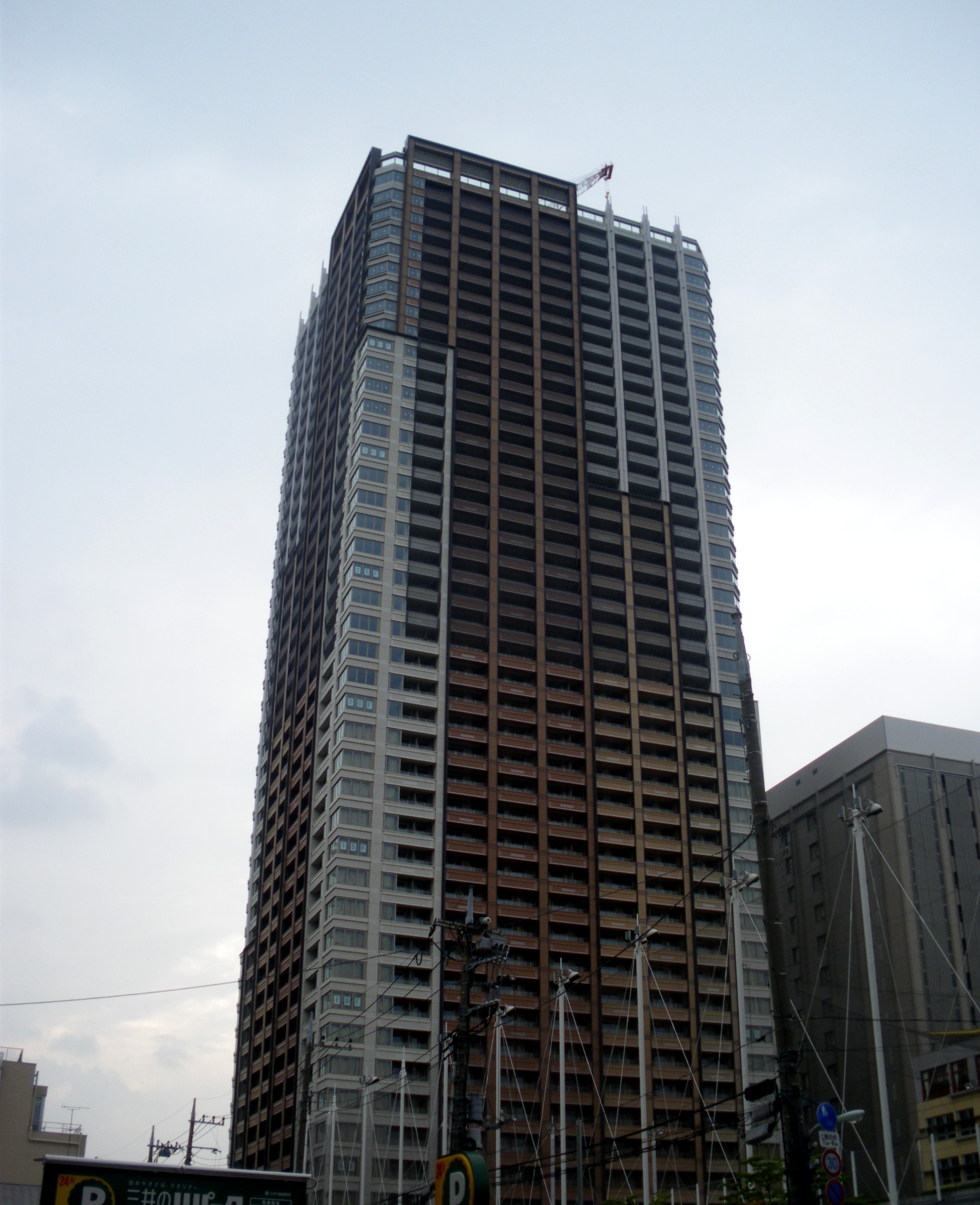 Park Tower Gran Sky(Higashigotanda,Shinagawa,Tokyo)